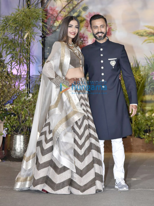 Sonam Kapoor and Anand Ahuja pose for photos outside of their wedding reception in Mumbai.